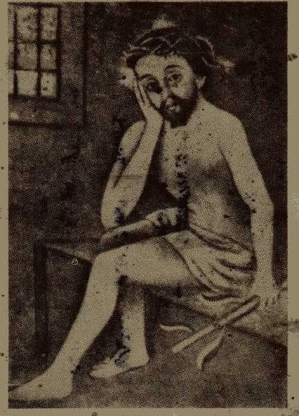 Image of "El Divino" a religious paint placed in Ricaute, Bolívar, Valle del Cauca, Colombia